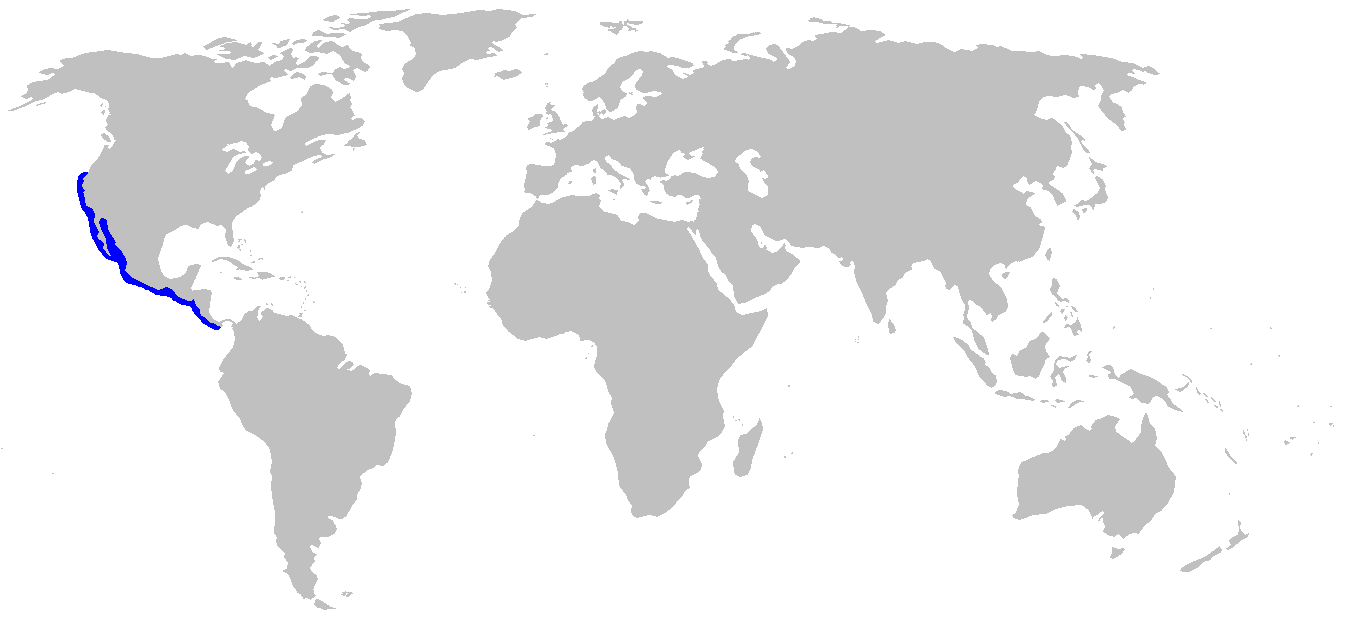 Distribution map for Urobatis halleri, based on [1]